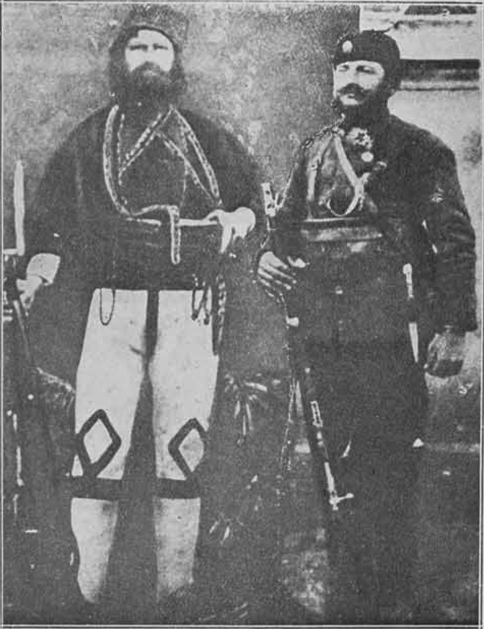 Kara Tasho (left) and Grigor Tsotsev